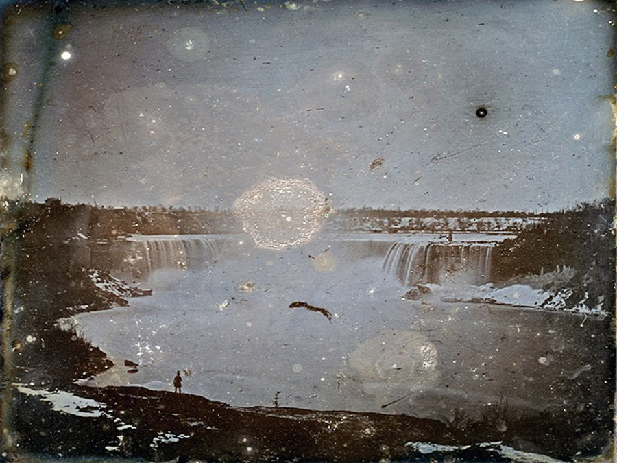 Early Daguerreotype photograph by Hugh Lee Pattinson (1796-1858), English metallurgist, believed to be the first ever taken of the Niagara Falls. The image was taken from the Canadian side in 1840, and inverted left-right.